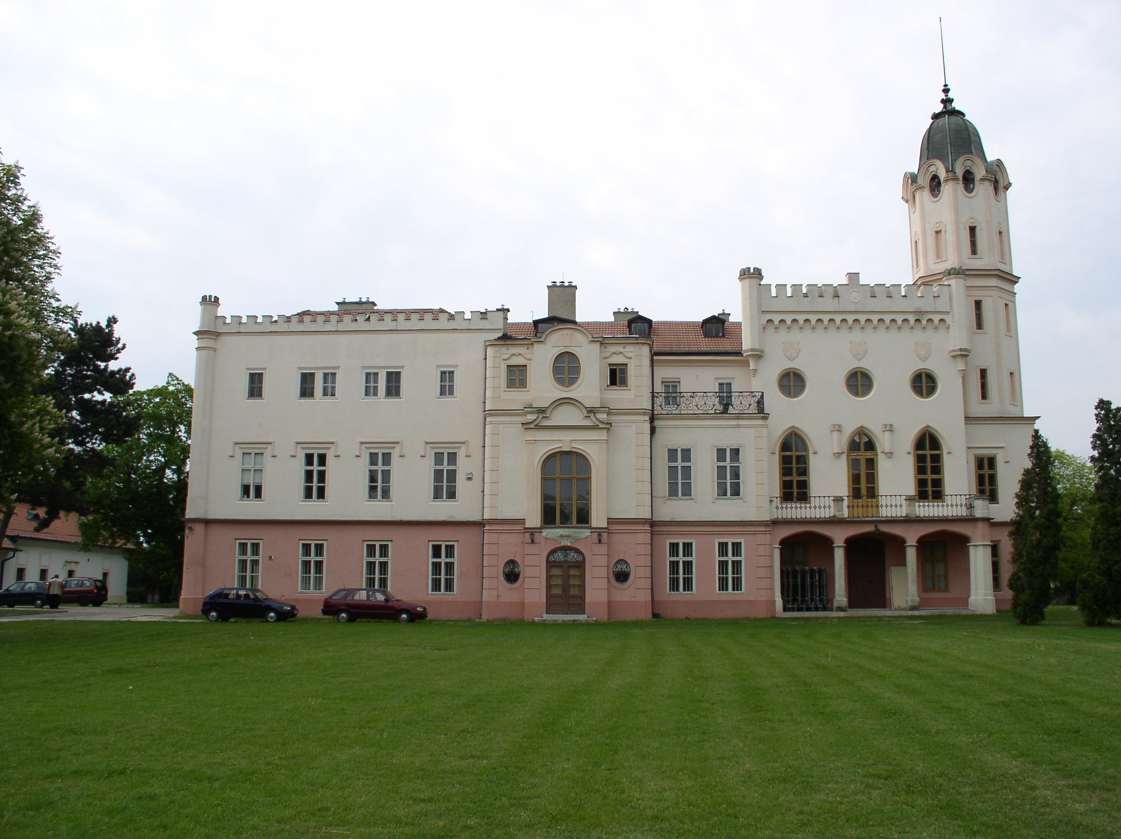 Kaštieľ v Ivanke pri Dunaji This medium shows the protected monument with the number 108-406/1 in the Slovak Republic.